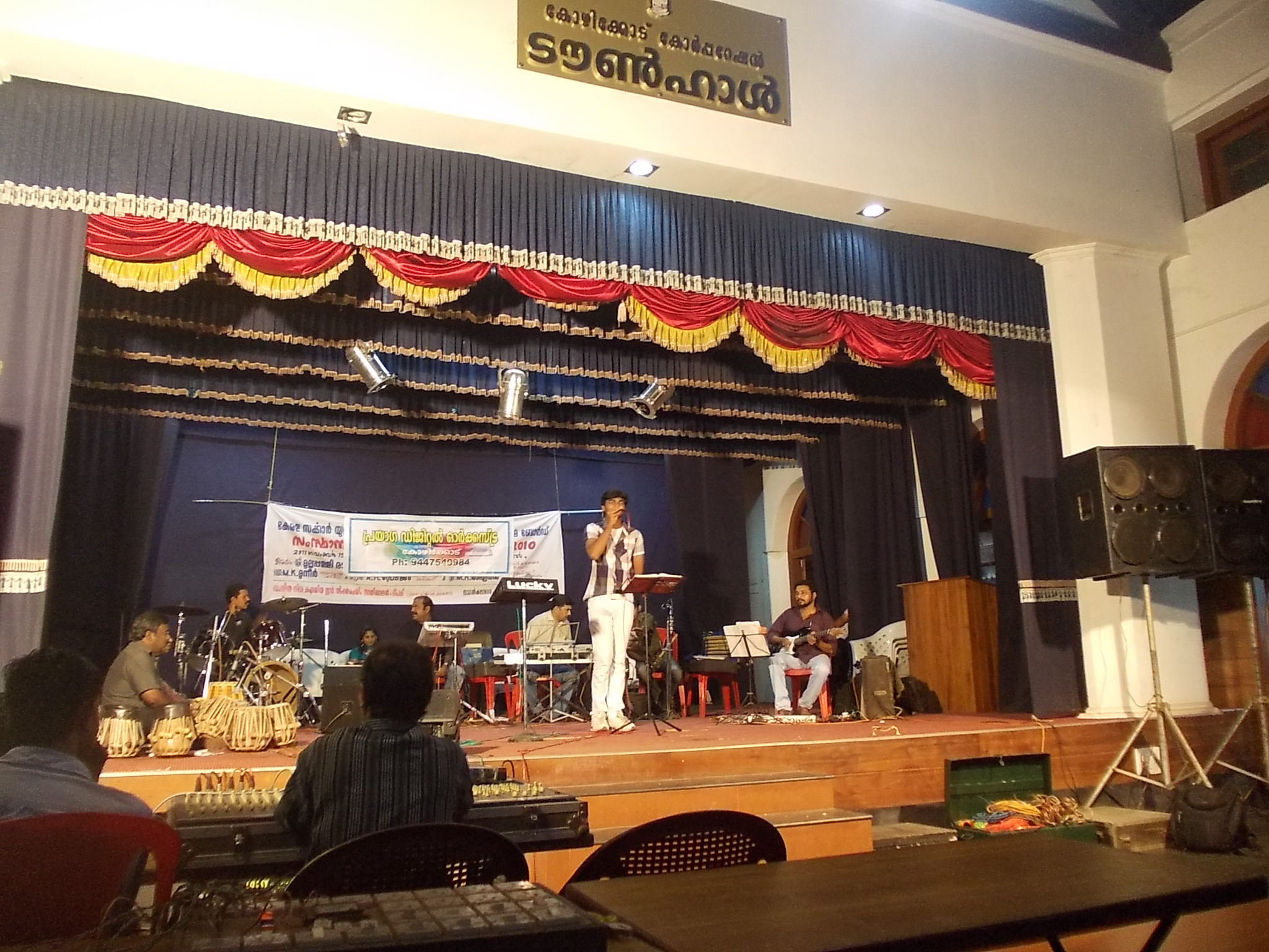 Music Programme